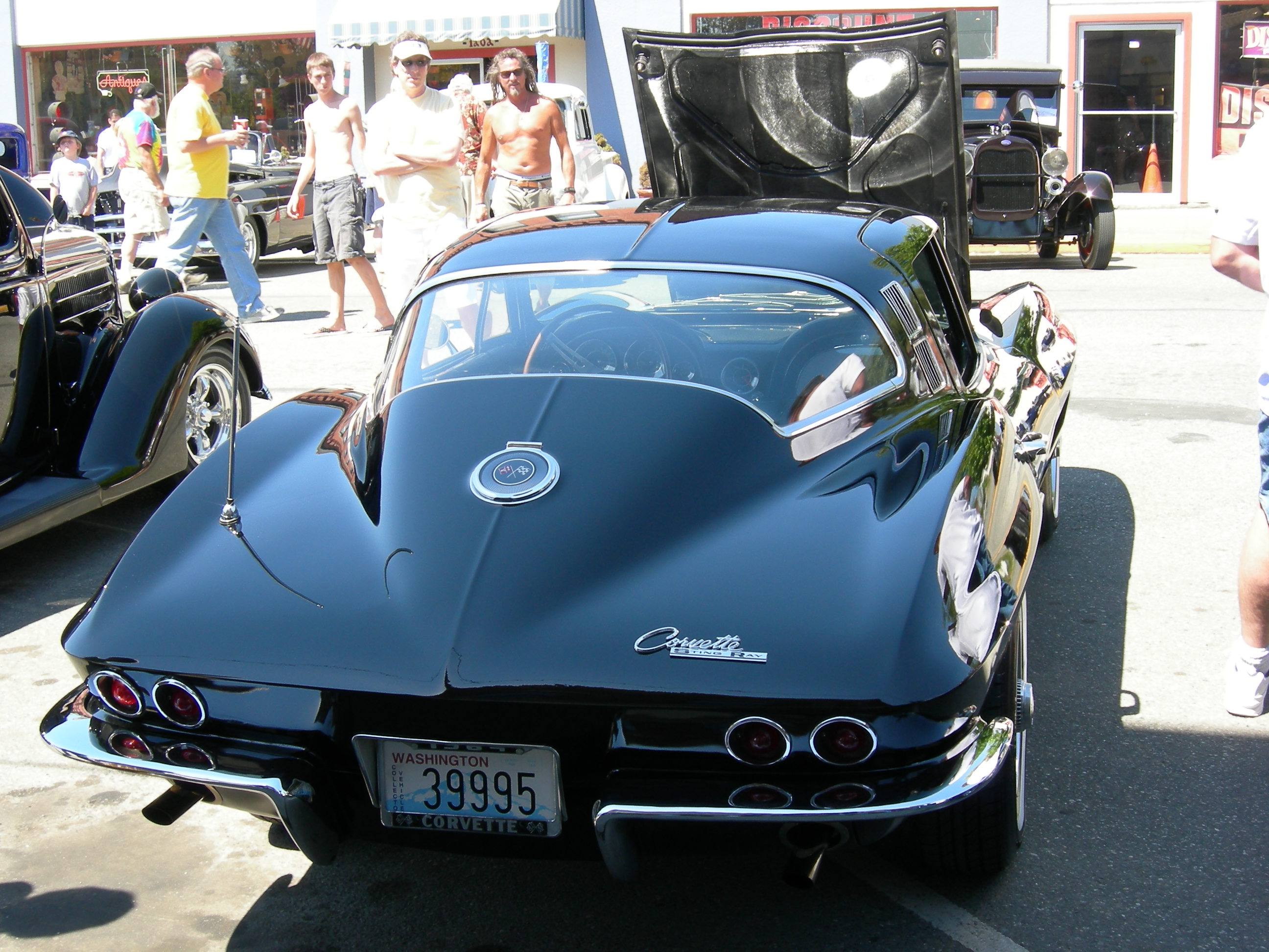 1964 Corvette Sting Ray (C2), photographed at Kla-Ha-Ya days, Snohomish, Washington